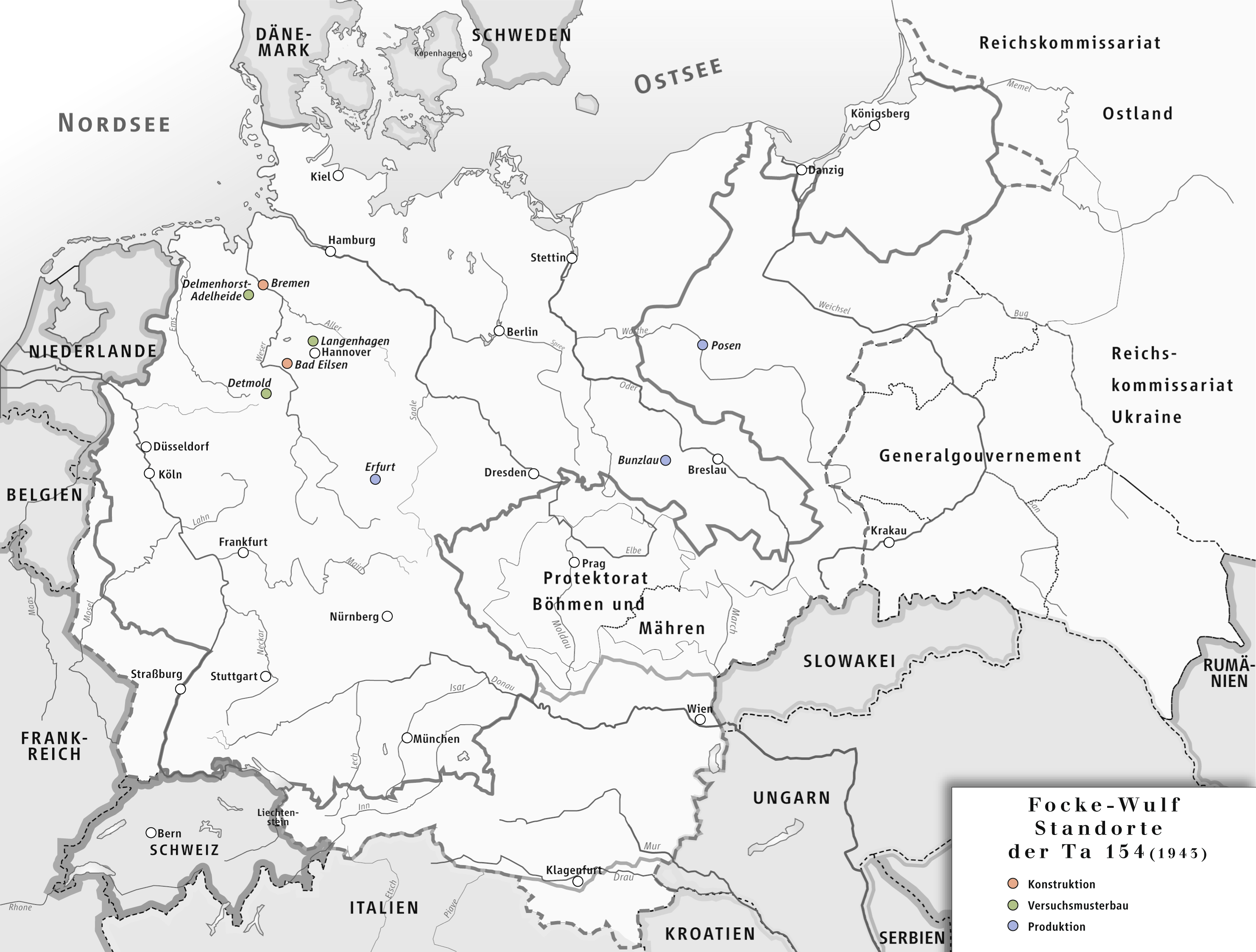 Locations of Focke-Wulf Ta 154